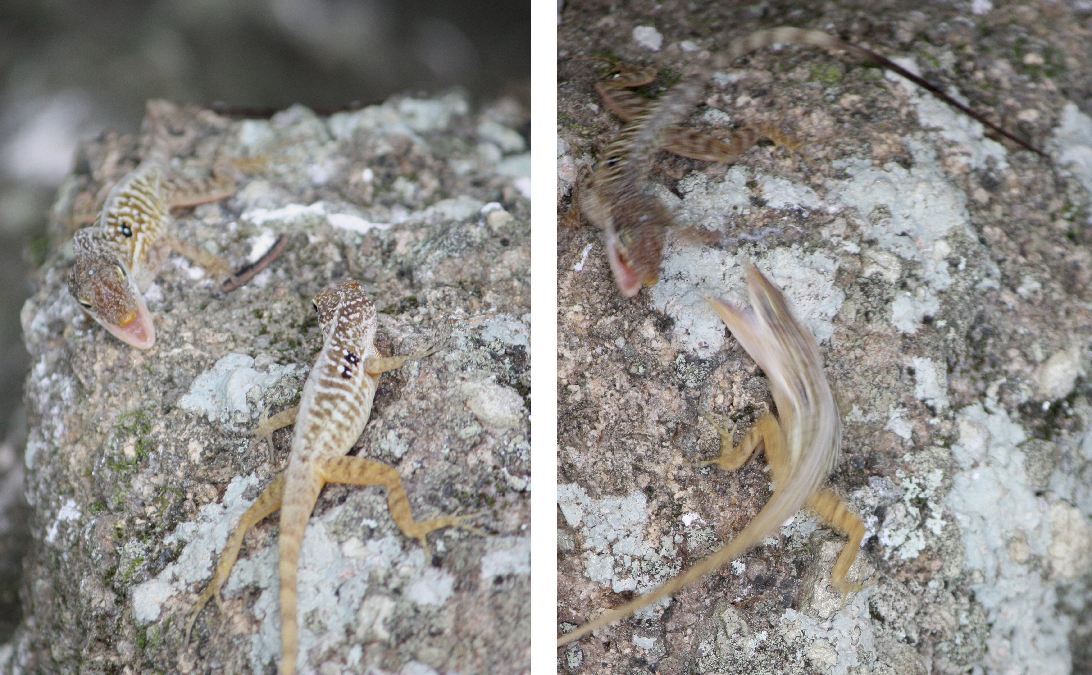 Male Dominican Anoles (Anolis oculatus) in territorial confrontation. North Caribbean ecotype (A. o. cabritensis). Near the Coulibistrie River, Dominica.